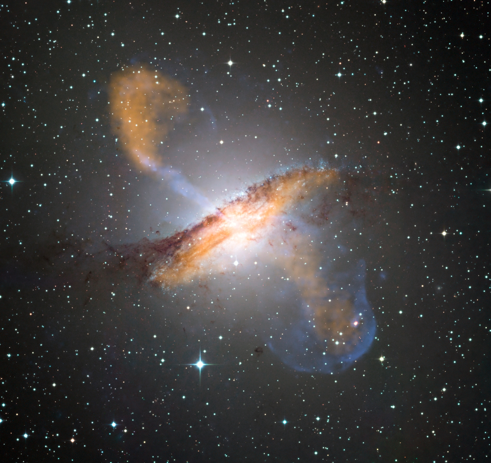 Cropped version of ESO Centaurus A LABOCA.jpg